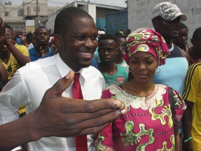 Christian Malanga campaigning with his wife Lucile Malanga in Kinshasa for member of Parliament.